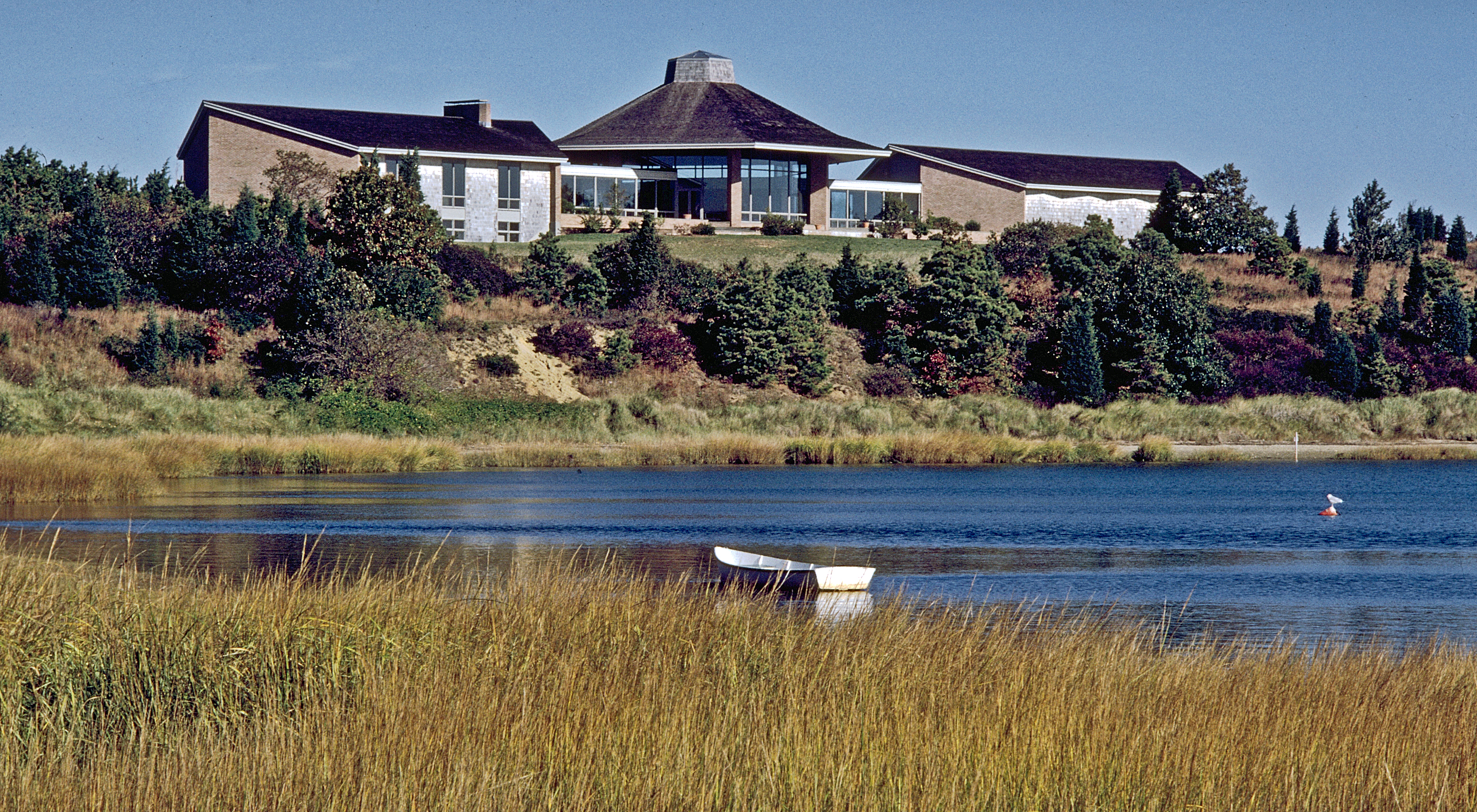 Salt Pond visitor center at Cape Cod National Seashore, Massachusetts, USA. Built as part of the Mission 66 program. From NPS Digital Archive.